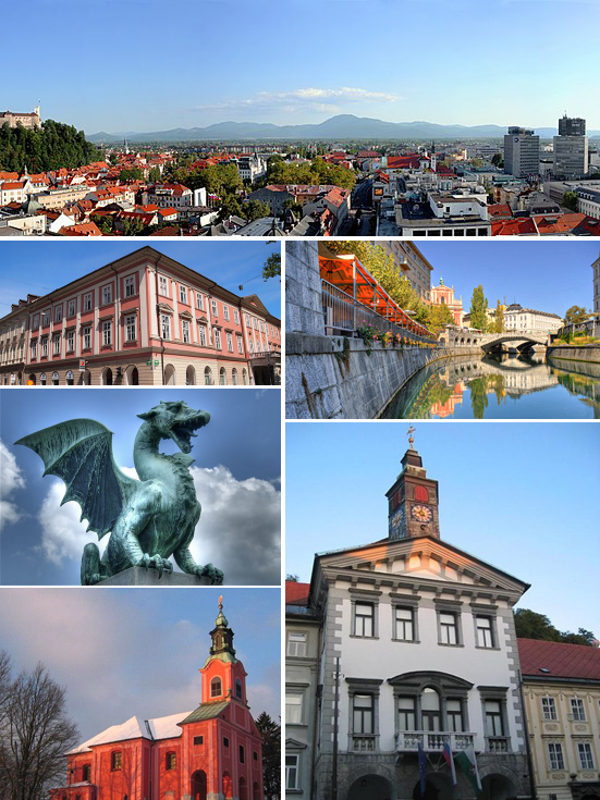 Updated montage of Ljubljana, Slovenia.Clockwise from top: Ljubljana Castle (in the background) and Franciscan Church of the Annunciation (in the foreground); Visitation of Mary Church at Rožnik Hill; Kazina Palace at Congress Square; Dragon on the Dragon Bridge; Ljubljana City Hall; Ljubljanica River (with the Triple Bridge in distance).